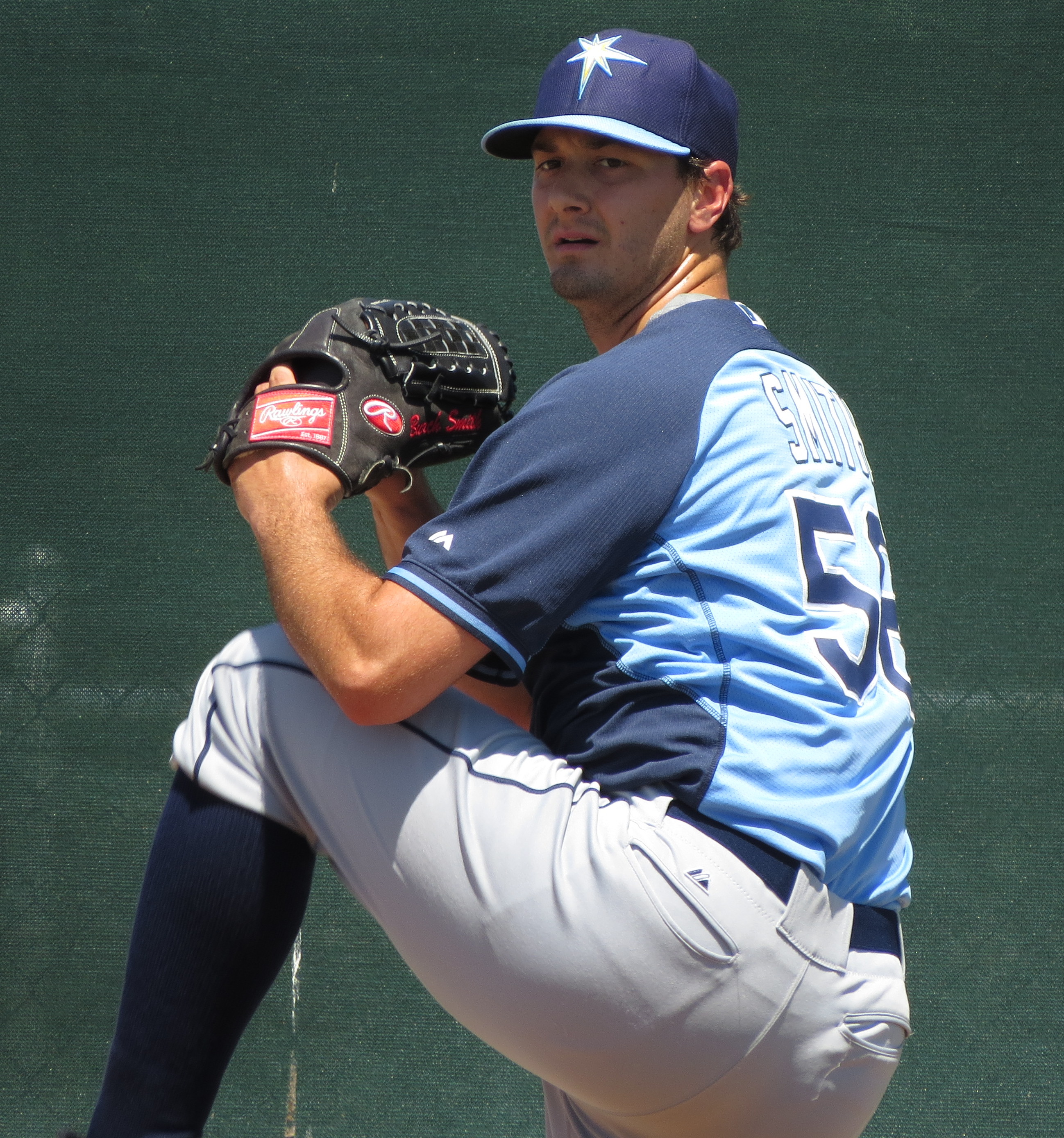 Burch Smith pitching for the Tampa Bay Rays during spring training in 2015.